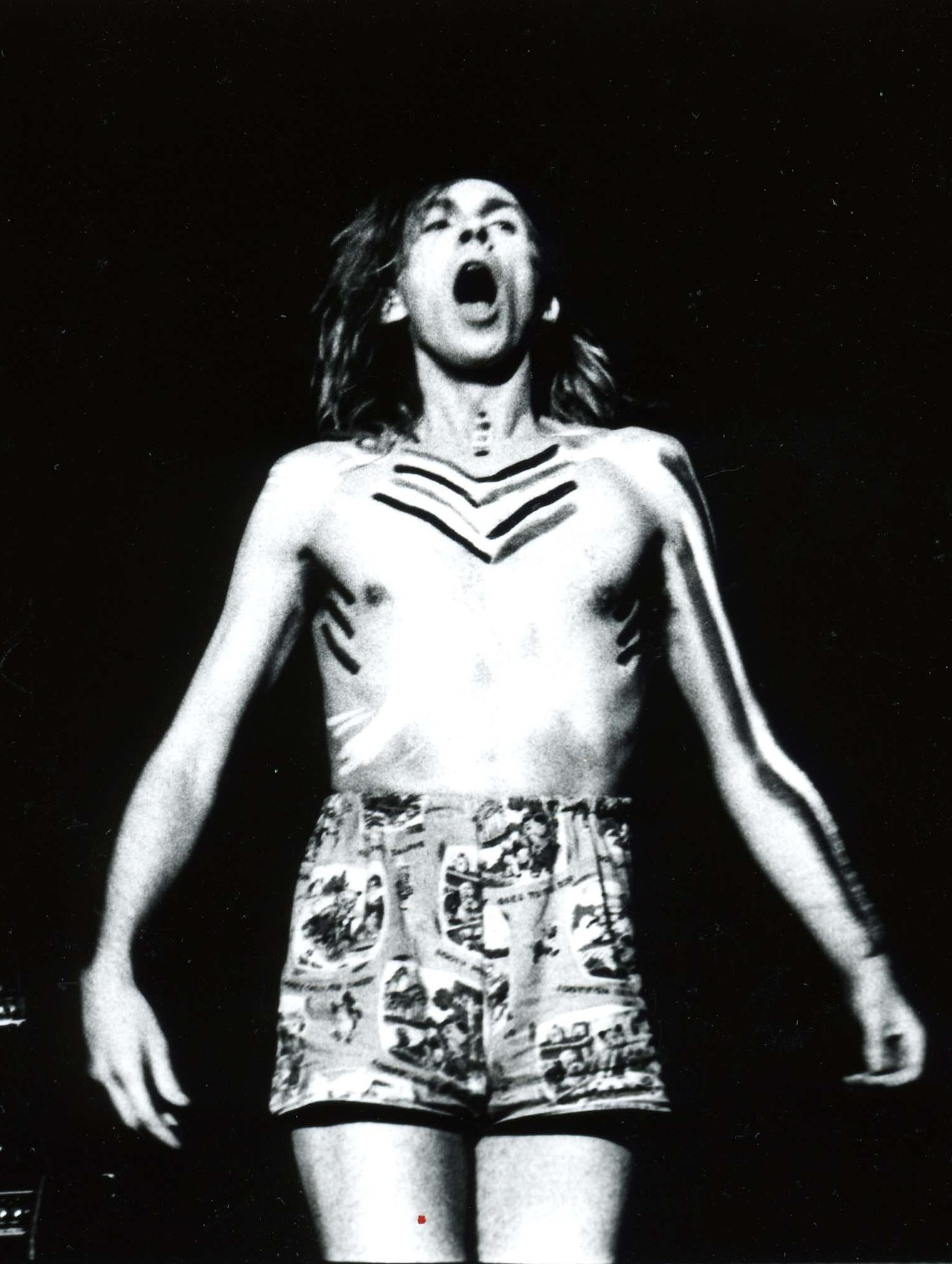 Julian Cope performing on stage